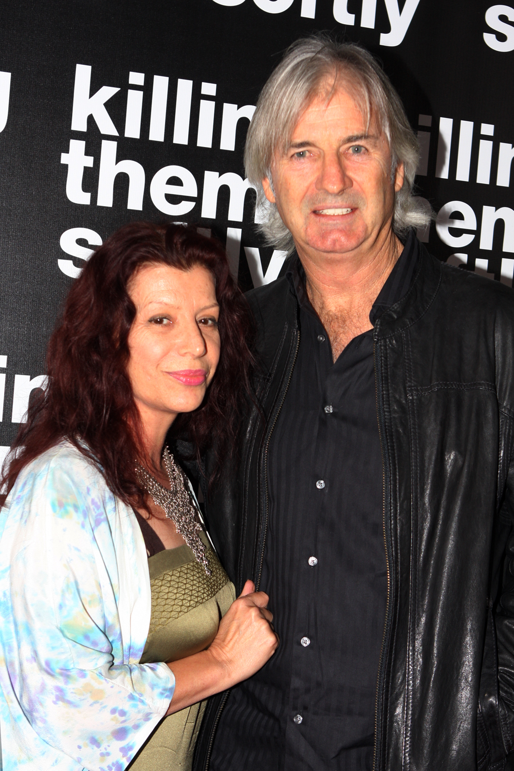 John Jarratt with Rosa Miano at Killing TheM Softly movie premiere, Dendy Opera Quays 'Killing Them Softly' enjoyed its Sydney, Australia movie premiere at Dendy Opera Quays this evening. Writer/ director Andrew Dominik (Chopper, The Assassination of Jesse James by the Coward Robert Ford) and star of the film Ben Mendelsohn (The Dark Knight Rises, Animal Kingdom) will attend the Australian premiere of KILLING THEM SOFTLY on Monday 24 September. Other guests attending include Bella Heathcote, Aaron Glenane, Brenna Harding, Elizabeth Blackmore, Felix Willamson, Gillian Armstrong, James Frecheville, John Jarratt Khan Chittenden, Krew Boylan, Leanna Walsman, Mary Coustas, Matthew Nable, Peter Phelps, Sacha Horler, Samara Weaving, Sarah Snook, Sean Keenan and Toby Schmitz. Adapted from George V. Higgins novel and set in New Orleans, Killing Them Softly follows professional enforcer, Jackie Cogan (Pitt), who investigates a heist that occurs during a high stakes, mob-protected poker game. Plot: Jackie Cogan is a professional enforcer who investigates a heist that went down during a mob-protected poker game. Director: Andrew Dominik Writers: Andrew Dominik (screenplay), George V. Higgins (novel) Stars: Brad Pitt, Ray Liotta and Richard Jenkins IN CINEMAS 11 OCTOBER 2012 Websites Killing Them Softly Dendy Cinemas Eva Rinaldi Photography Eva Rinaldi Photography Flickr Music News Australia Nixco